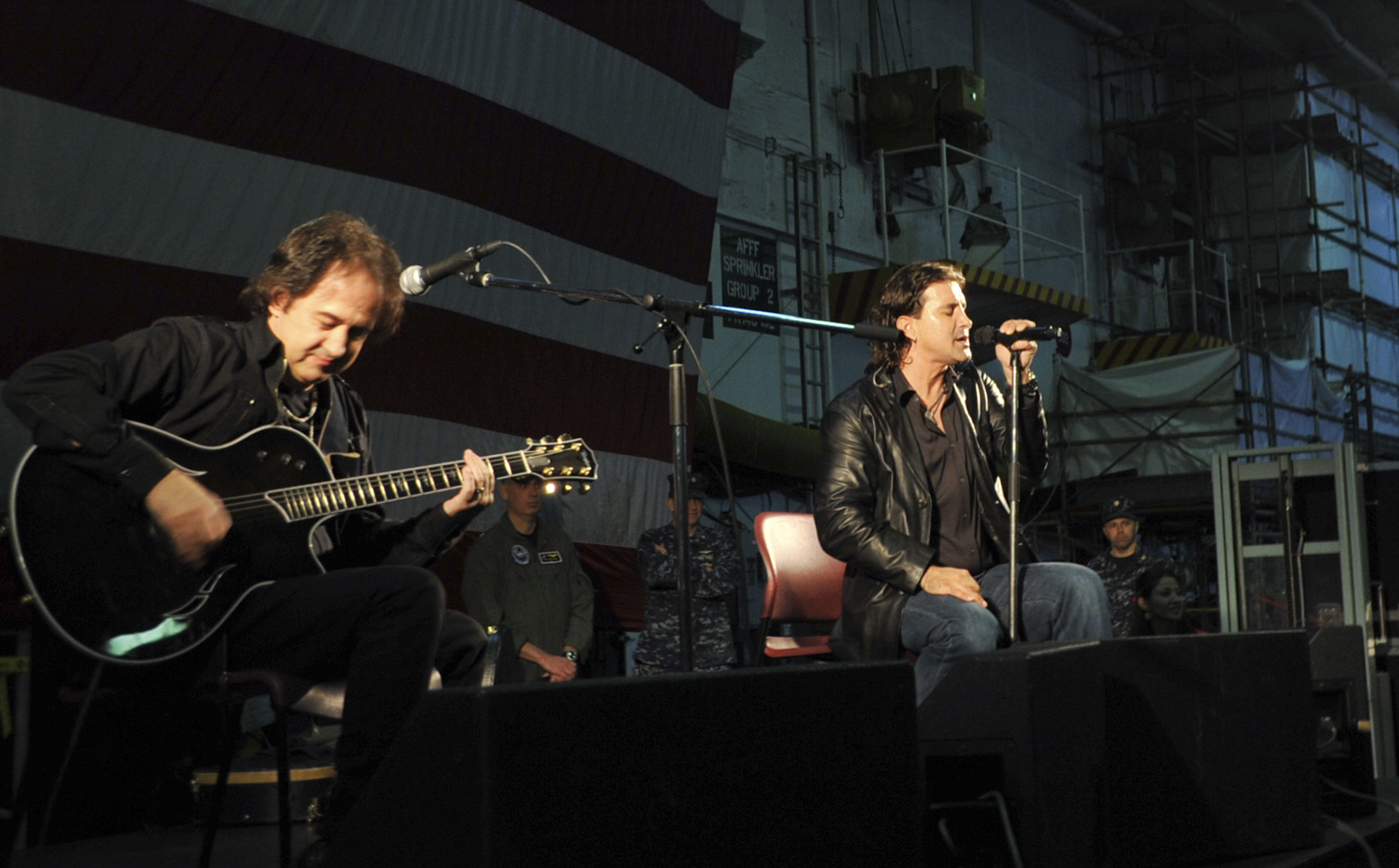 YOKOSUKA, Japan (March 18, 2012) Scott Stapp, lead singer of Creed, and guitarist, Brent Look, perform an acoustic rock concert aboard the Nimitz-class aircraft carrier USS George Washington (CVN 73). The concert was organized by the ship's leadership and the USO. Stapp and his party met with the ship's crew and toured the carrier during their visit. (U.S. Navy photo by Chief Mass Communication Specialist Ryan Delcore/Released) 120318-N-EC644-087 Join the conversation navylive.dodlive.mil